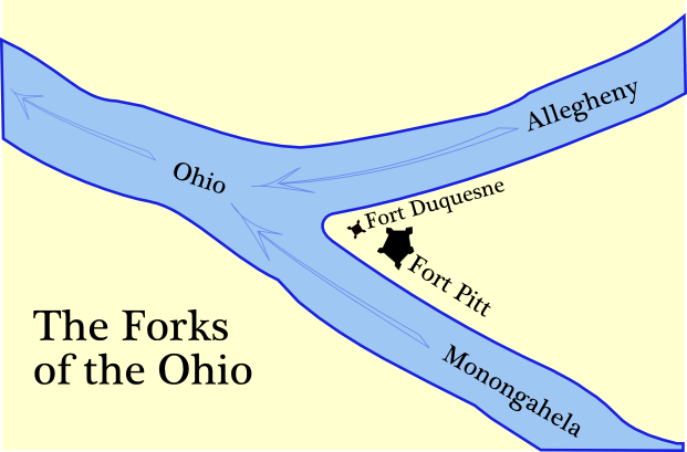 The map places the forts according to the positions of reconstructed elements, such as this bastion of Ft. Duquesne. Self-made map of the Forks of the Ohio (Monongahela, Allegheny and Ohio rivers). Shows Fort Pitt and Fort Duquesne. Outlines of the walls (curtains) of the forts traced from the original plans as published in 19th century histories.